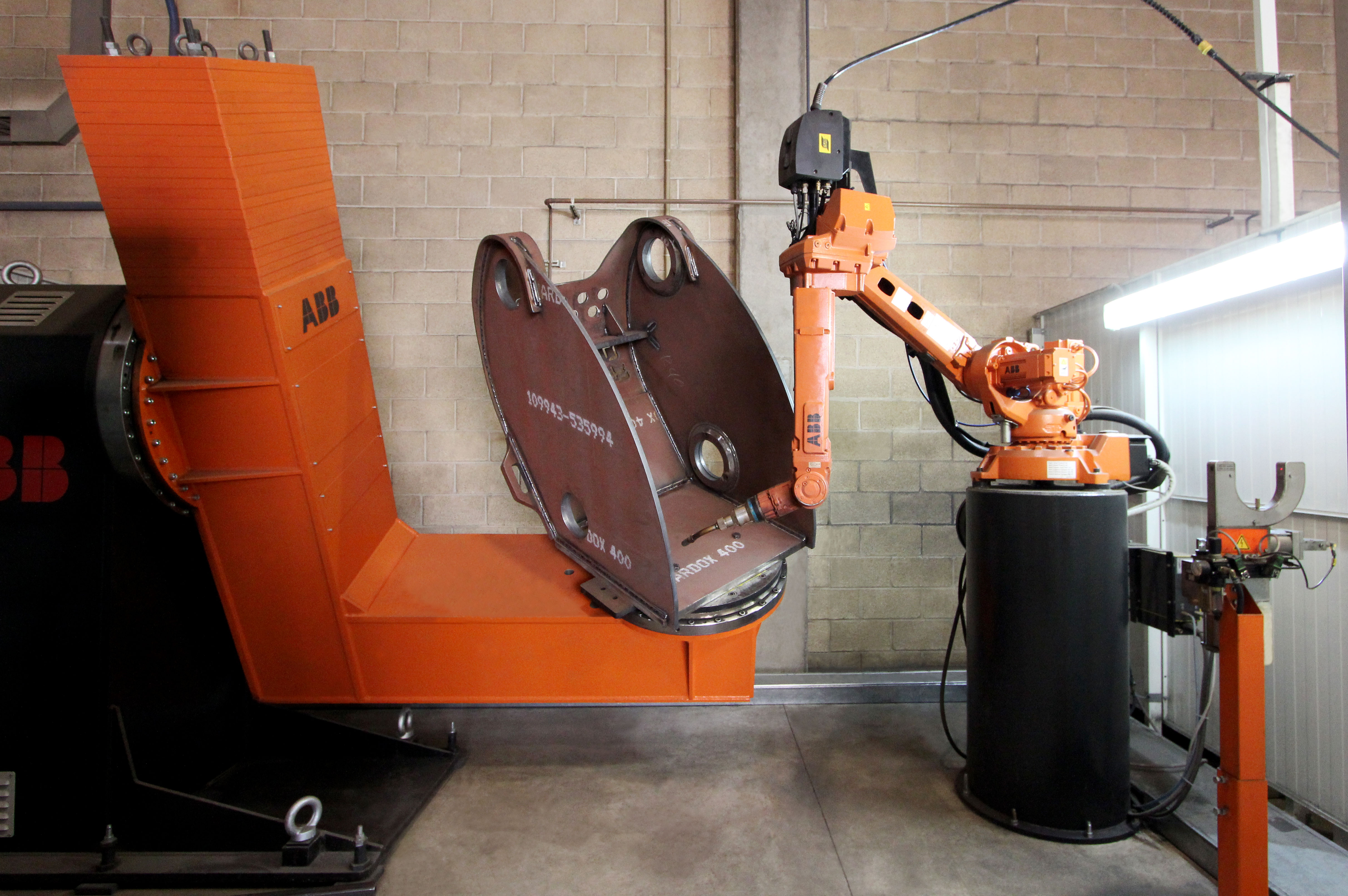 The ABB welding robot working on a Xcentric Ripper housing